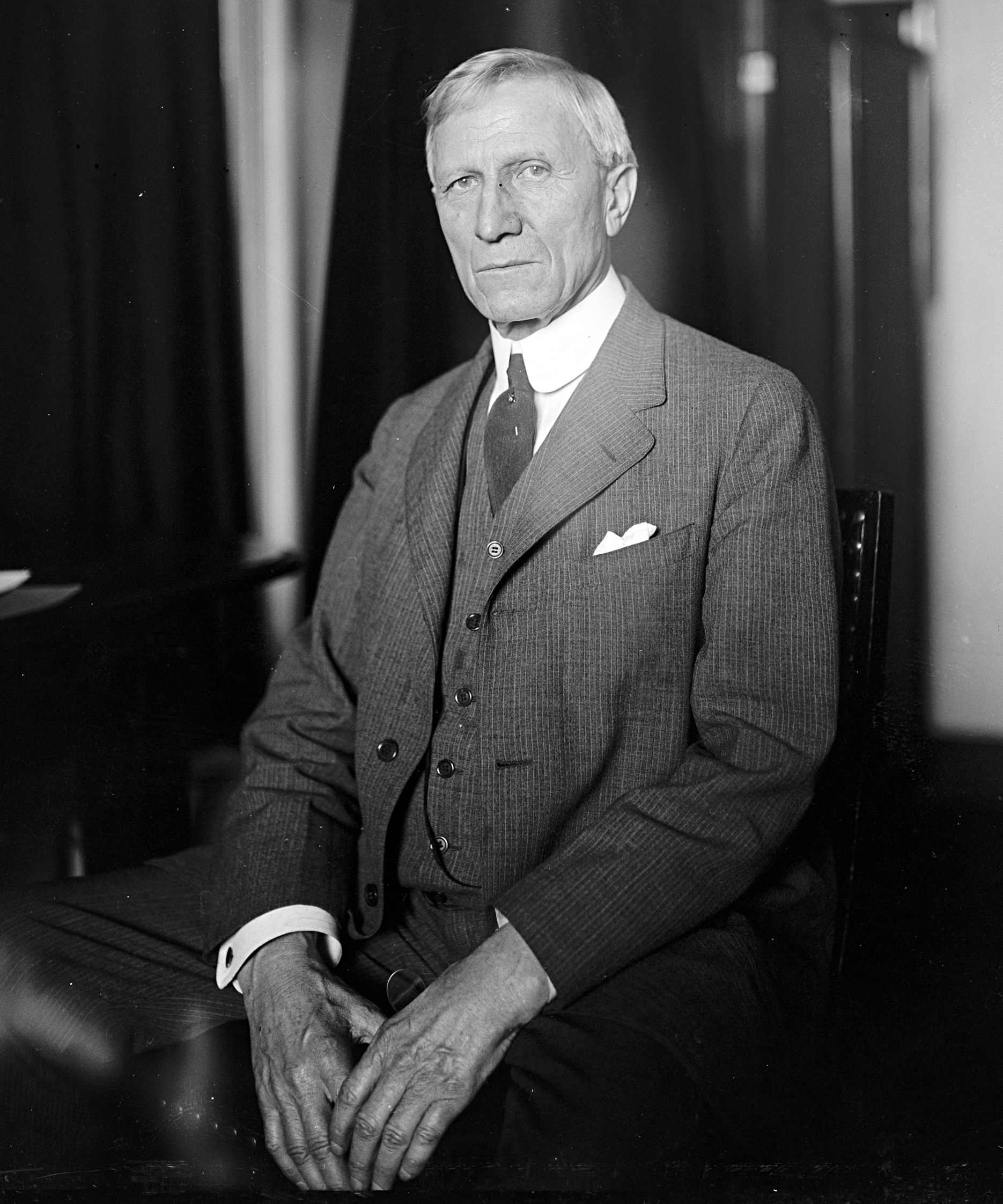 George M. Wertz, US Representative from Pennsylvania